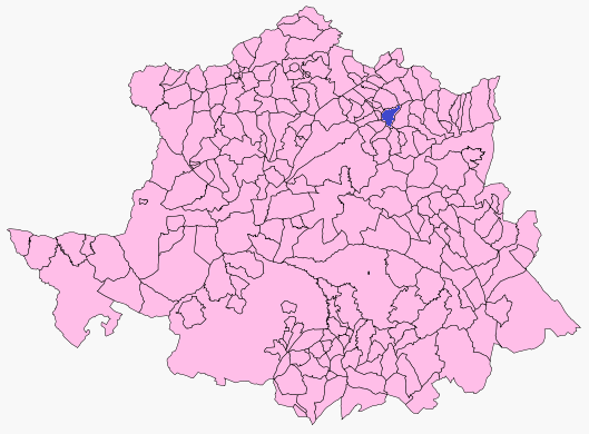 Piornal